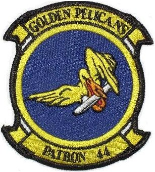 This is the last of four different insignia for the fourth VP-44 squadron.